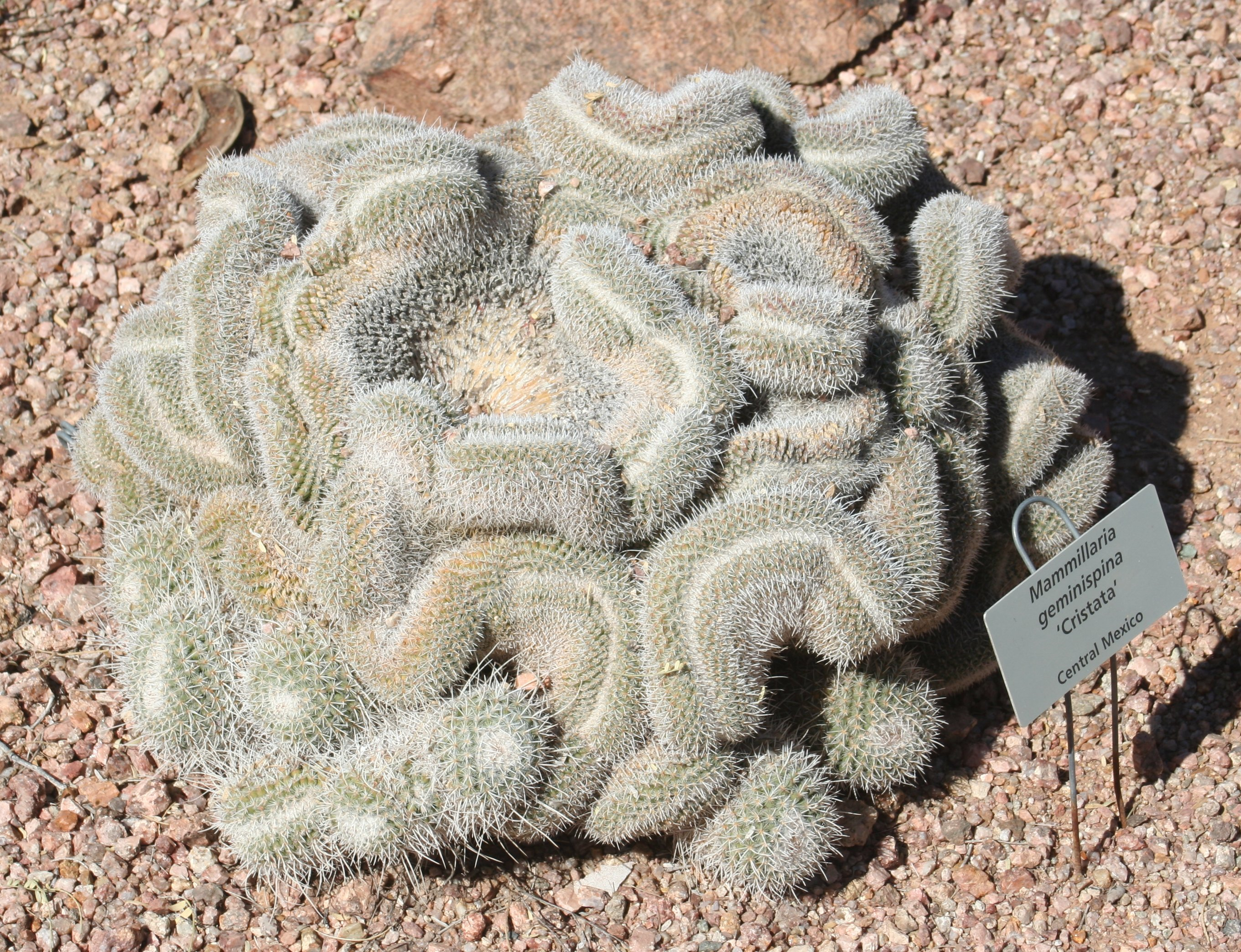 Mammillaria geminispina "Cristata"; native to Central Mexico. Photographed at the Desert Botanical Garden, Phoenix, AZ.